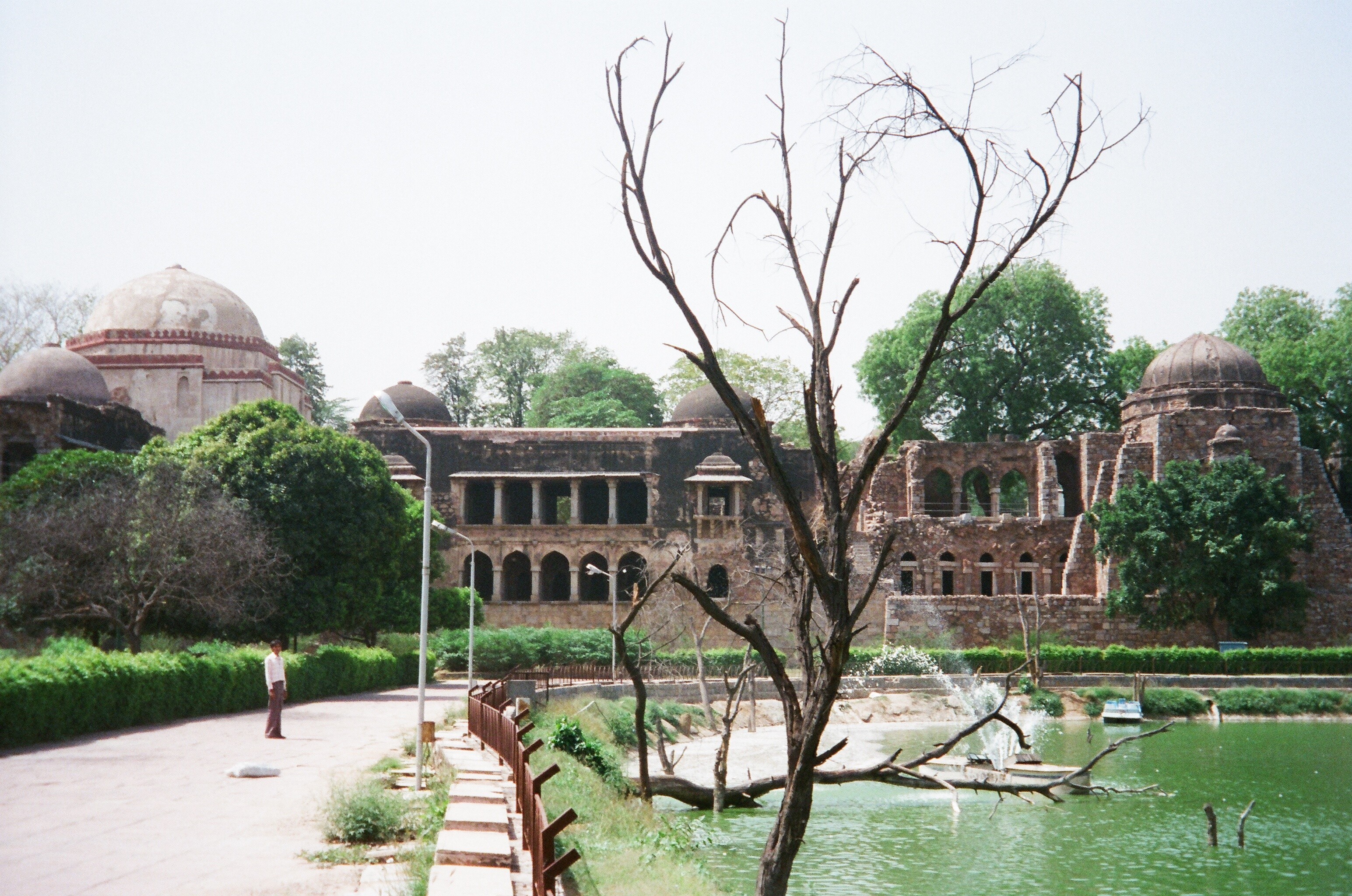 Feroze Shah's tomb at the left end with Northern limb of the Madarasa